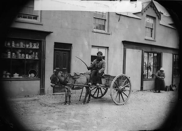 1 negative : glass, wet collodion, b&w ; 12 x 16.5 cm.